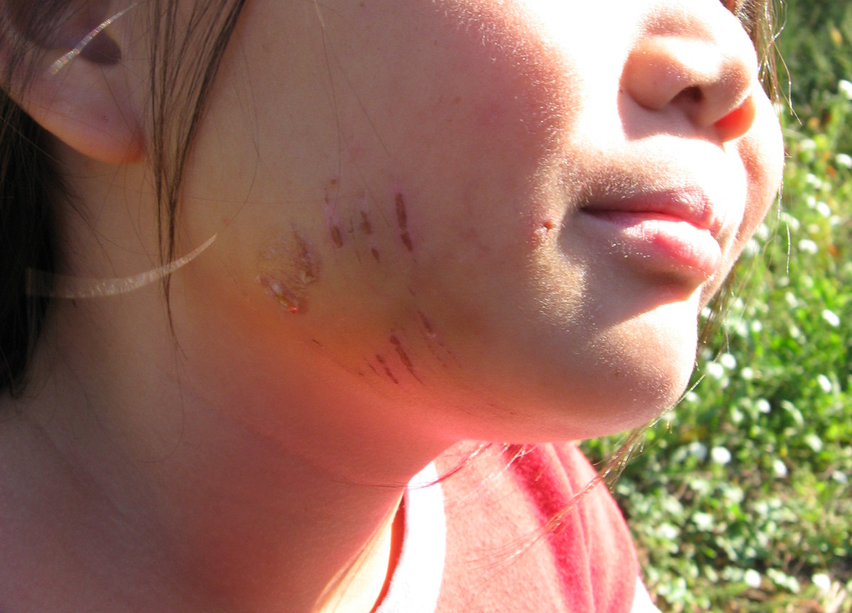 Dog bite